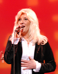 live photo of Susan Jacks onstage